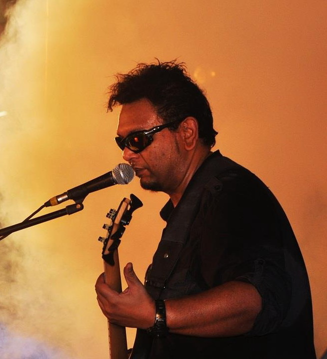 Sumon, Vocalist from Aurthohin Band of Bangladesh at the concert of rag 07 batch of Chittagong University of Engineering and Technology